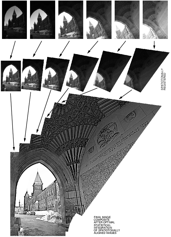 Comparametric sequence to show undigital (computational) photography I drew this thing using IDRAW to illustrate unigital (computational) photography from a sequence of pictures I took of Hart House in succession, differently exposed, pictures of overlapping subject matter. I license this image for use in Wikipedia Captioned As { }